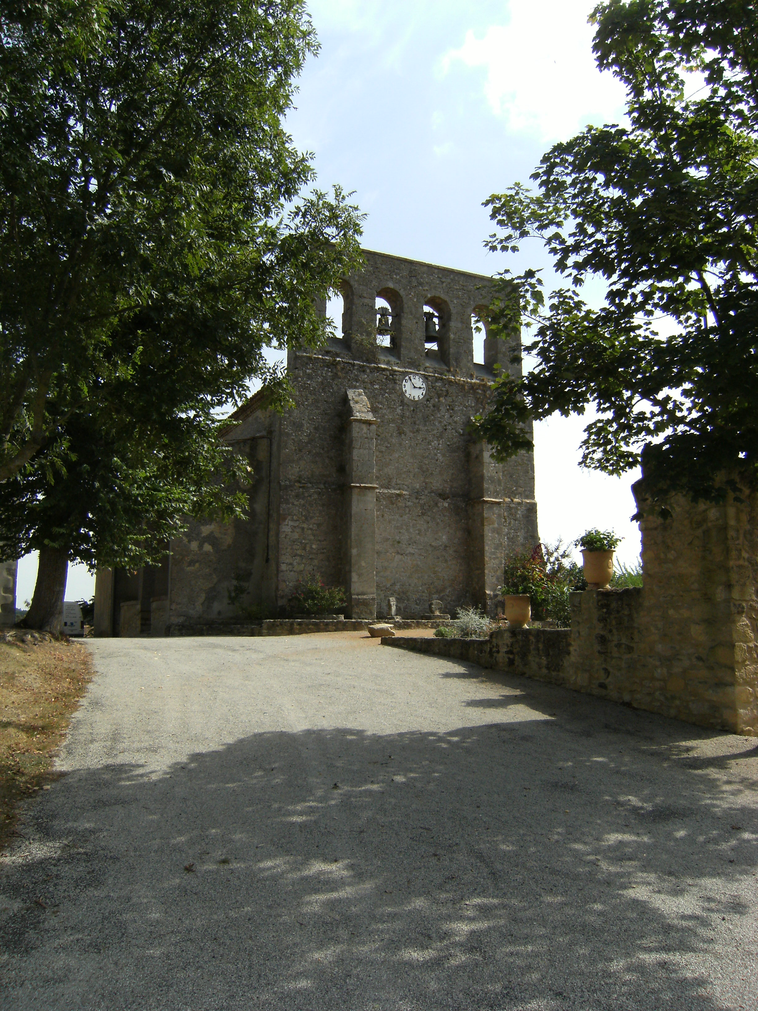 Facade of Saint-Pierre church in Mayreville, Aude